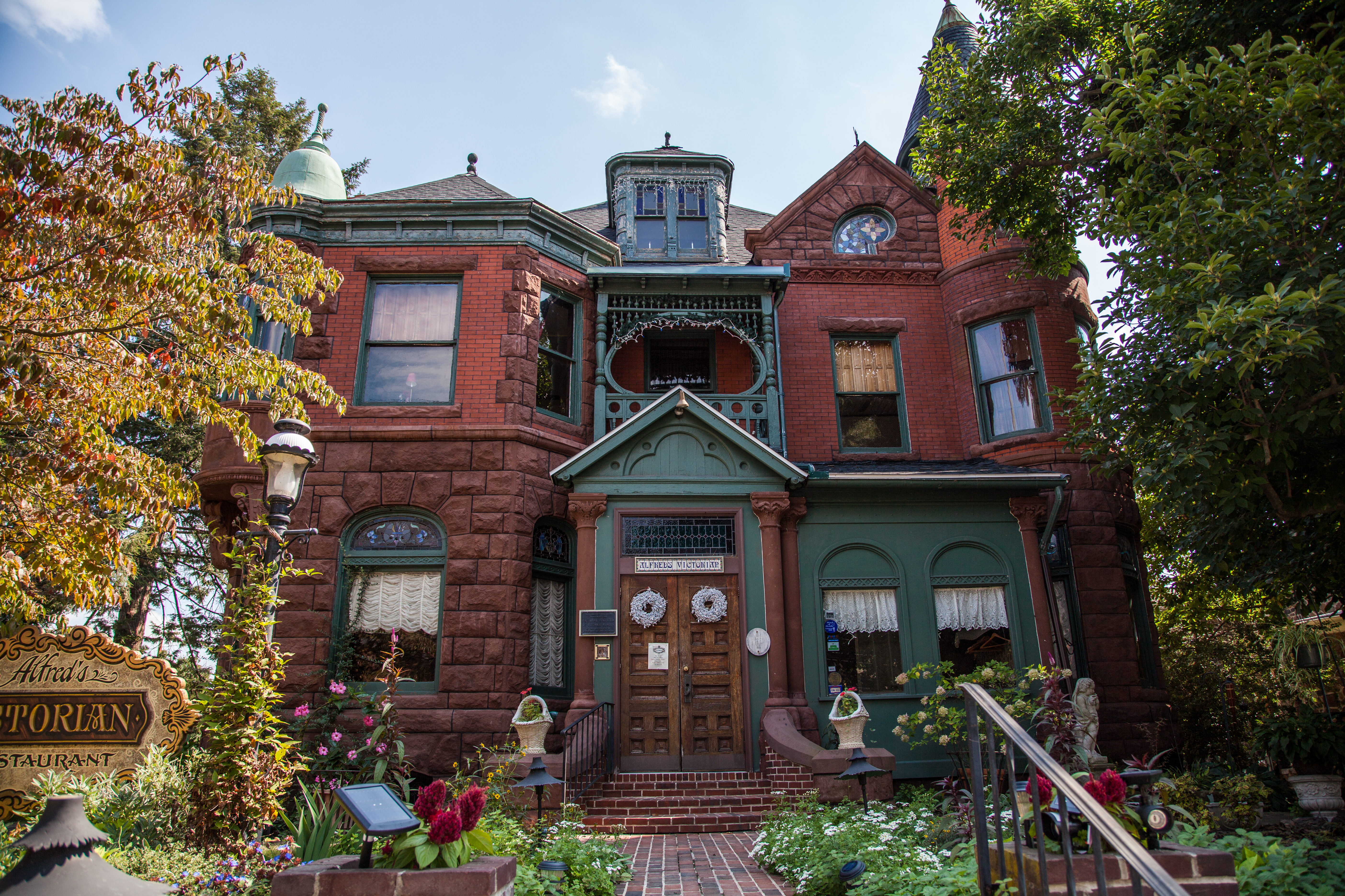 Charles and Joseph Raymond Houses, 38 and 37 North Union Street Middletown